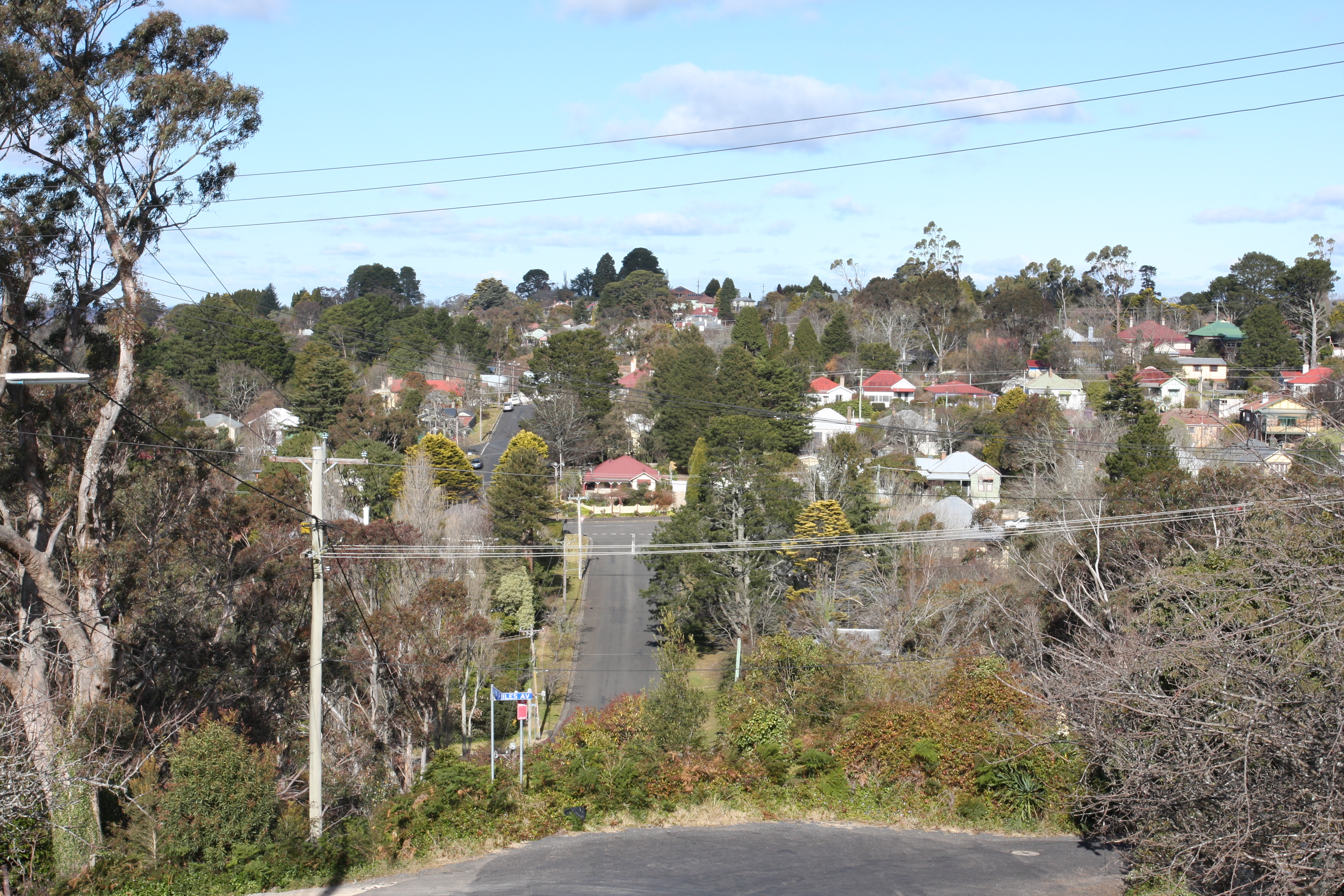 Blue Mountains National Park